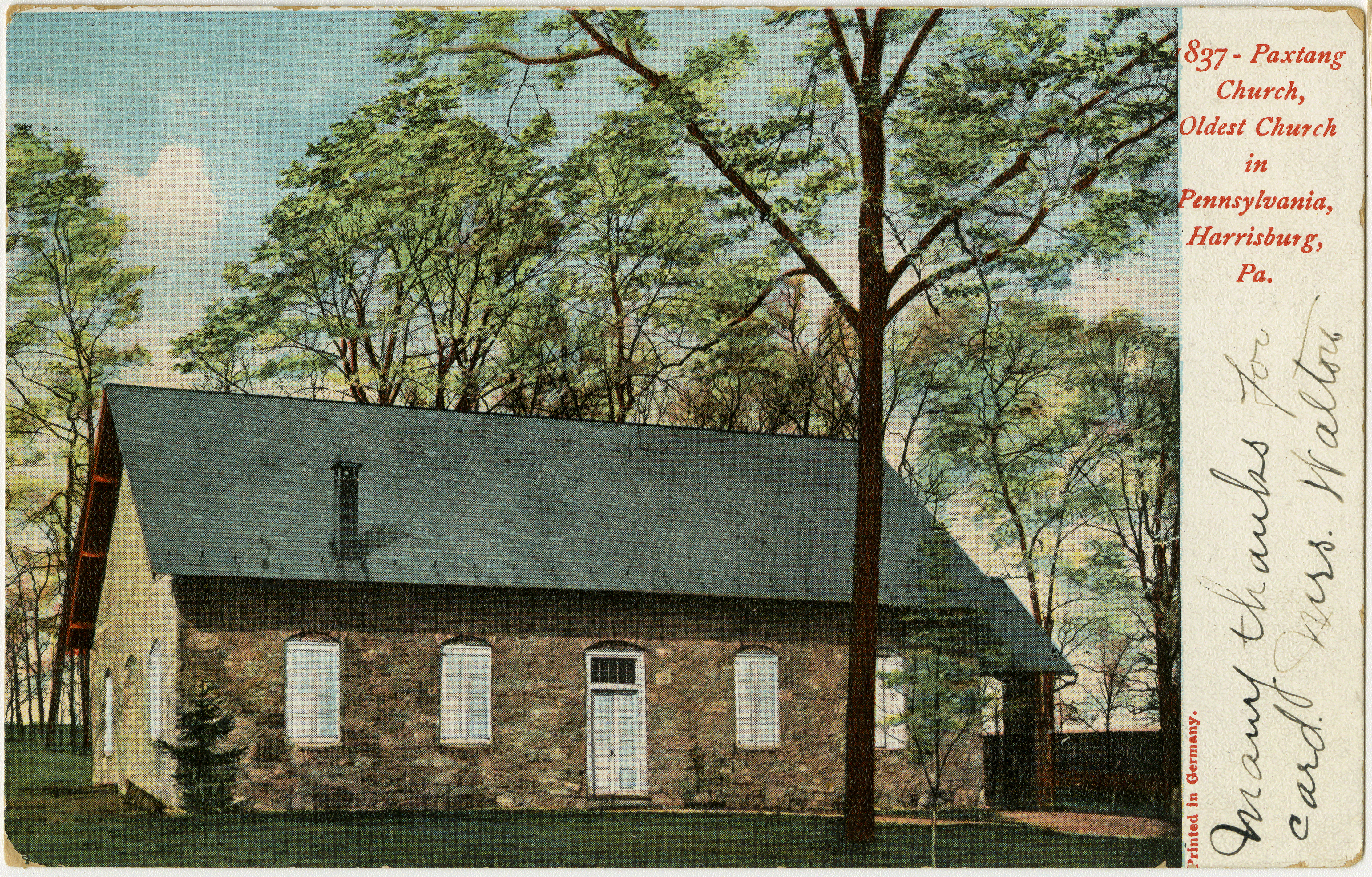 Paxtang Presbyterian Church in or near Harrisburg, Pennsylvania from a pre-1923 postcard. The location may be in Paxton Township. Note that the claim on the card that this is the "Oldest Presbyterian Church in Pennsylvania" is very questionable, but the church goes back to at least the 1750s. From RG 428, Postcard Collection, Presbyterian Historical Society, Philadelphia, Pennsylvania.